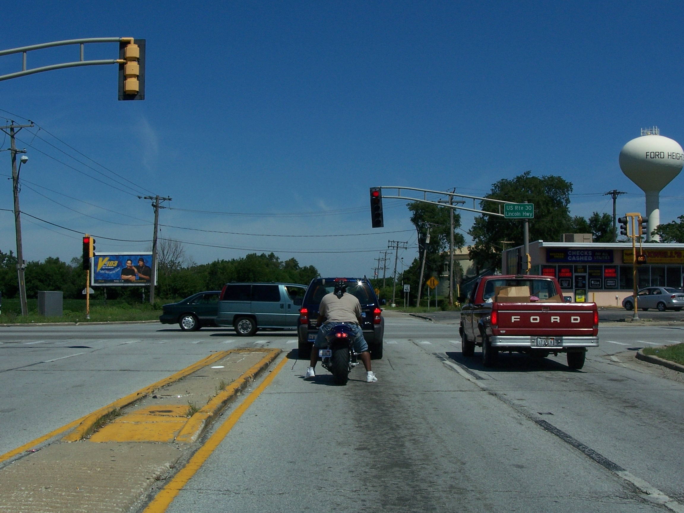 Cottage Grove Avenue at US 30 (also known as Lincoln Highway or 14th St.) in Ford Heights, Illinois